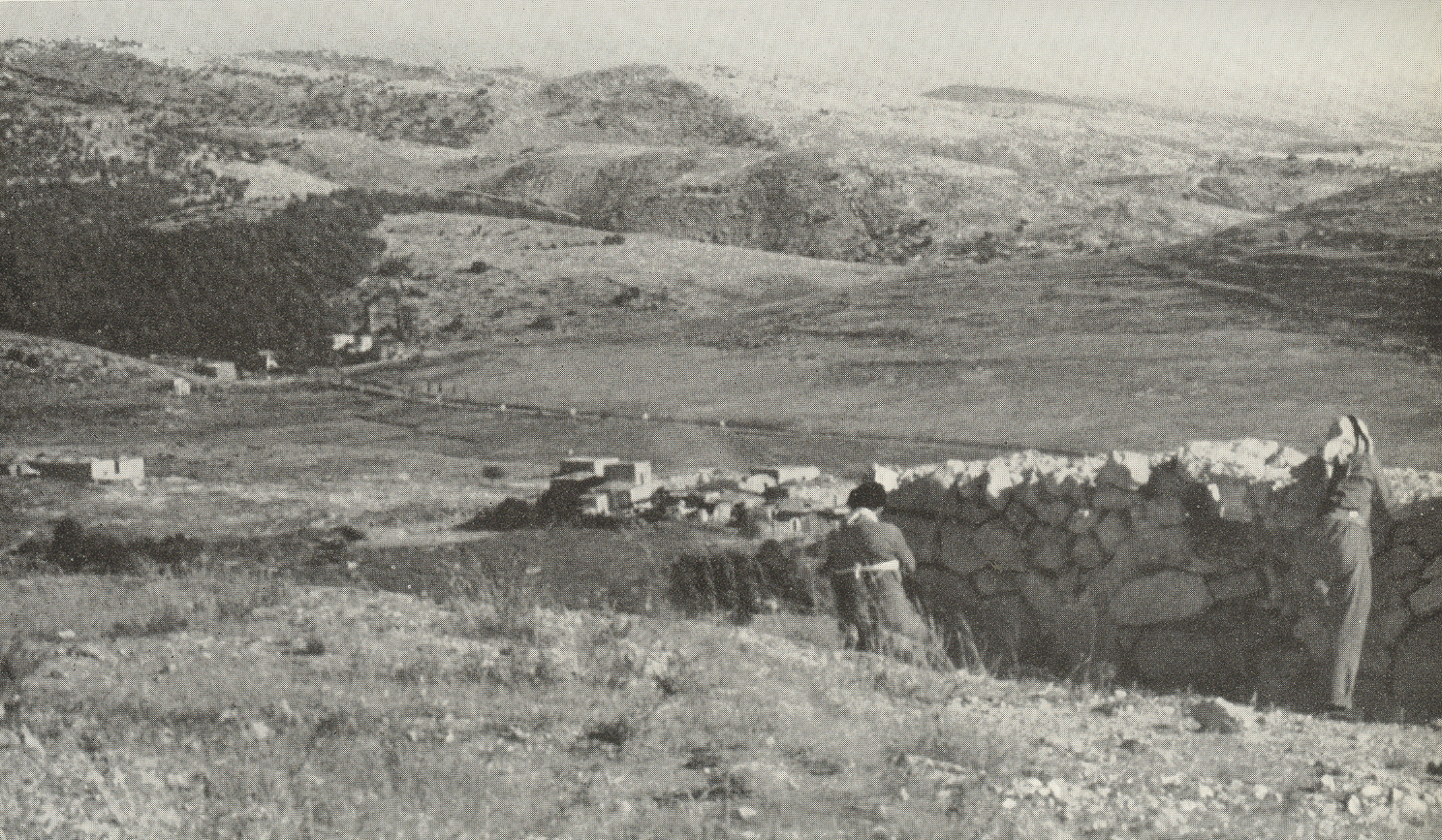 View from Arab Legion positions at Latrun. The entrance to Bab al Wad can be seen on the left.